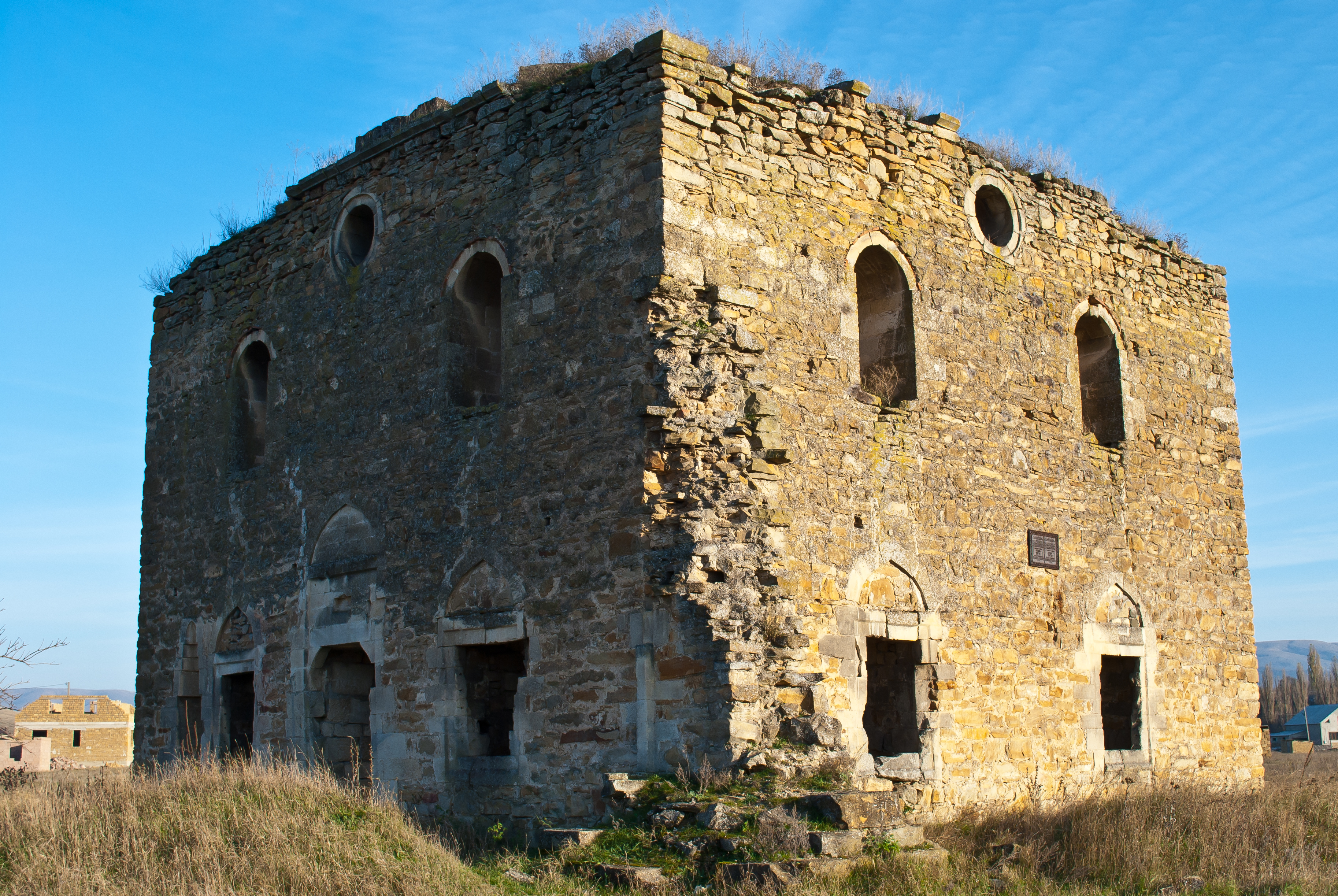 The remains of the mosque Eski-Saray (14th century) in the village Pionerskoye (Simferopol district, Crimea).